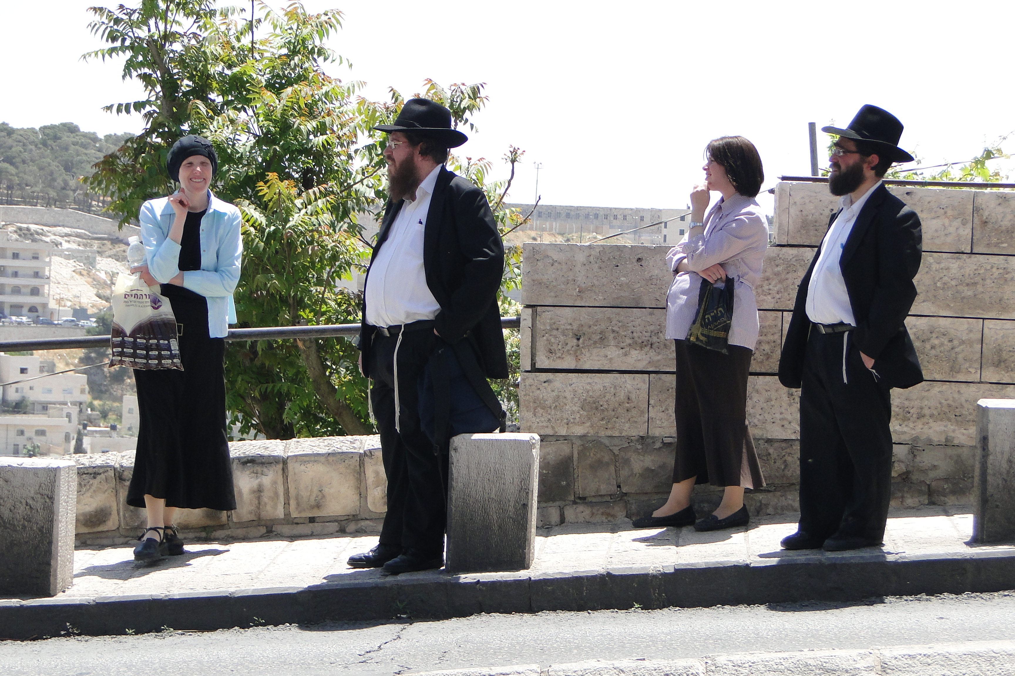 Jerusalem, Mount Zion, Ma'ale HaShalom street and Silwan in the background - Haredi (Orthodox) Jewish Couples at Bus Stop - Outside Old City - Jerusalem Haredi (Orthodox) Jewish Couples at Bus Stop - Outside Old City - Jerusalem